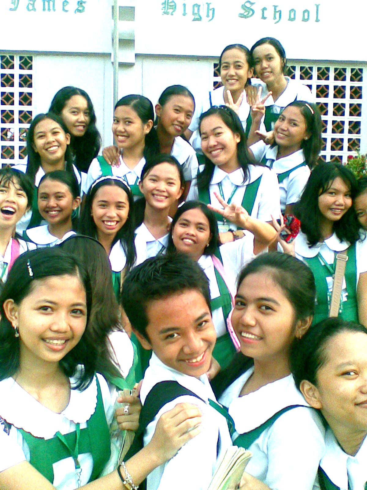 This is a picture of students of Saint James High School.